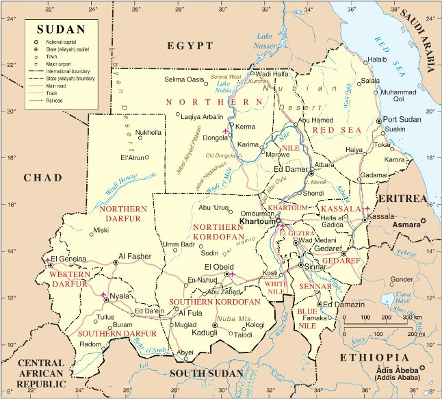 This is a new political map of the Republic of the Sudan